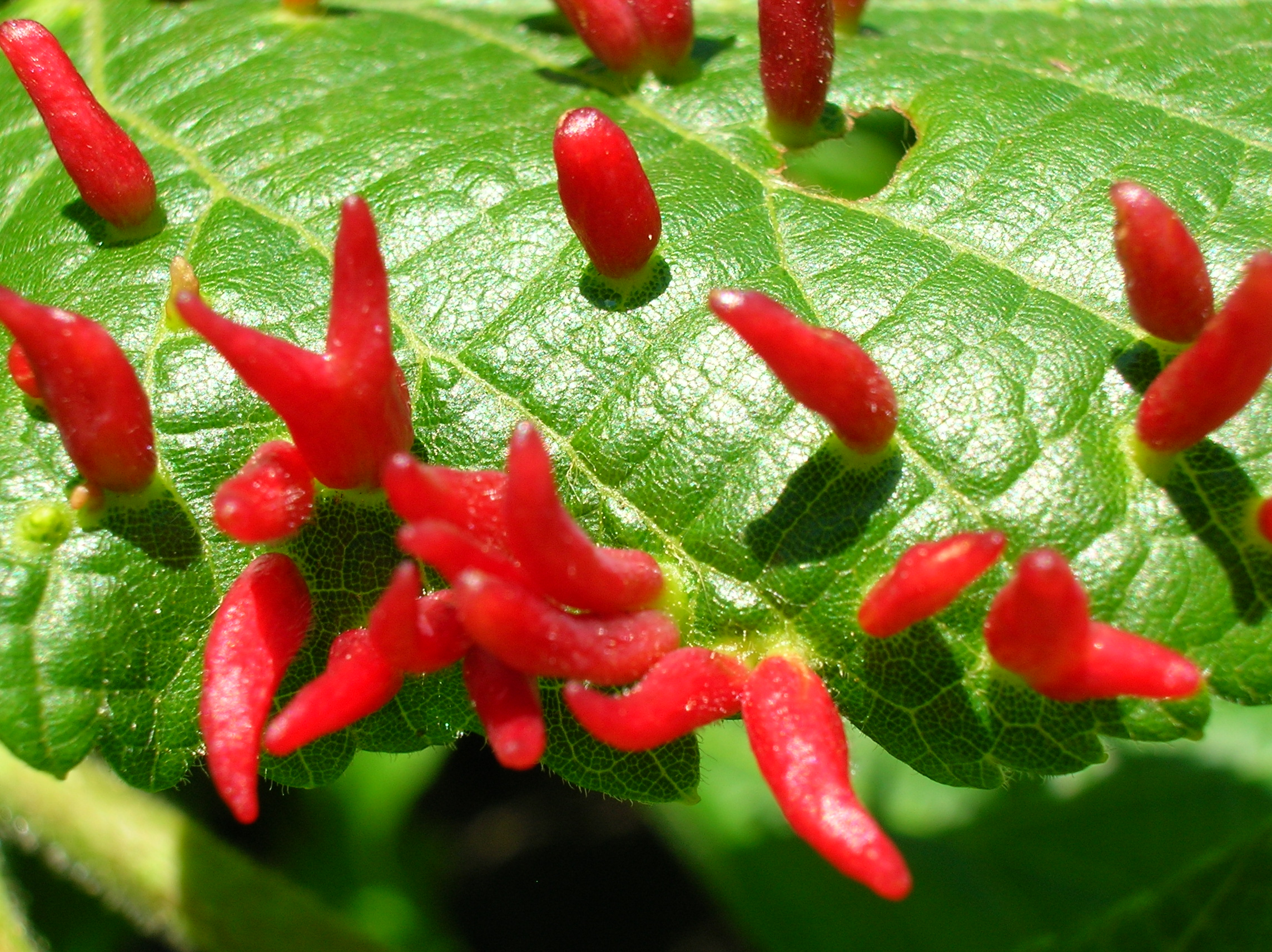 Lime Nail Gall Eriophyes tiliae tiliae on Tilia × europaea. Mature gall. Eglinton. North Ayrshire, Scotland.